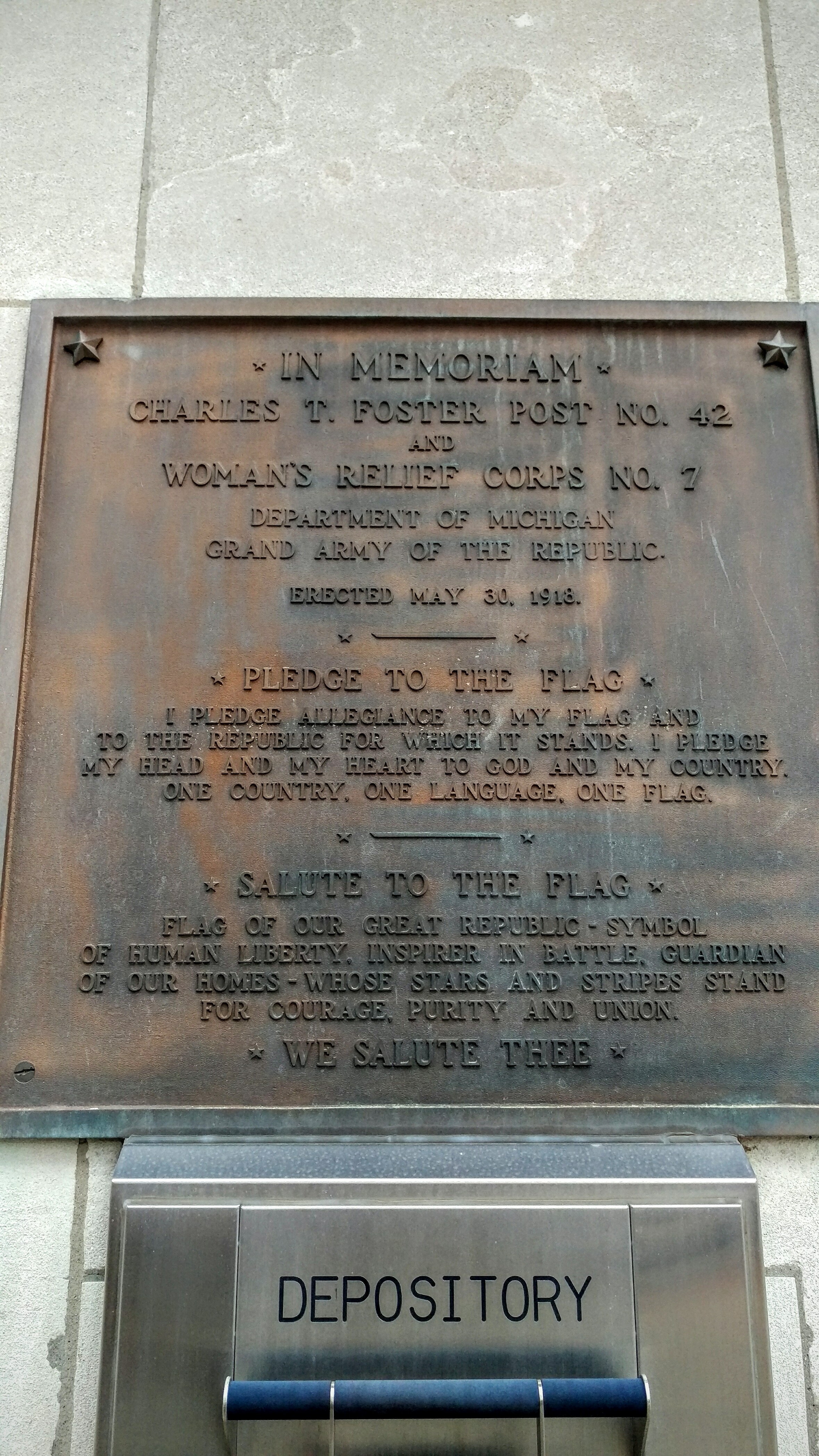 A plaque memorial to the Grand Army of the Republic and the Women's Relief Corp. listing older versions of the Pledge of Allegiance in Lansing, MI